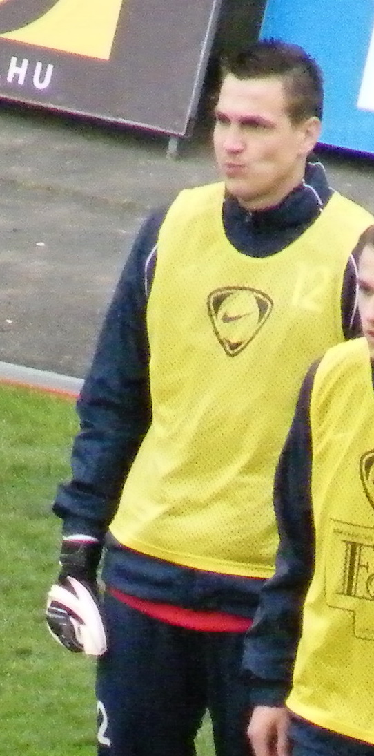 Tomáš Tujvel Slovakian football player